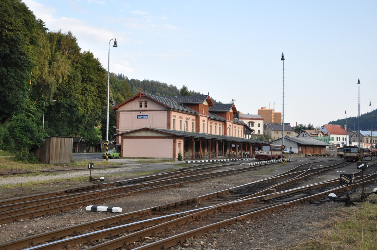 station Tanvald, czech republic